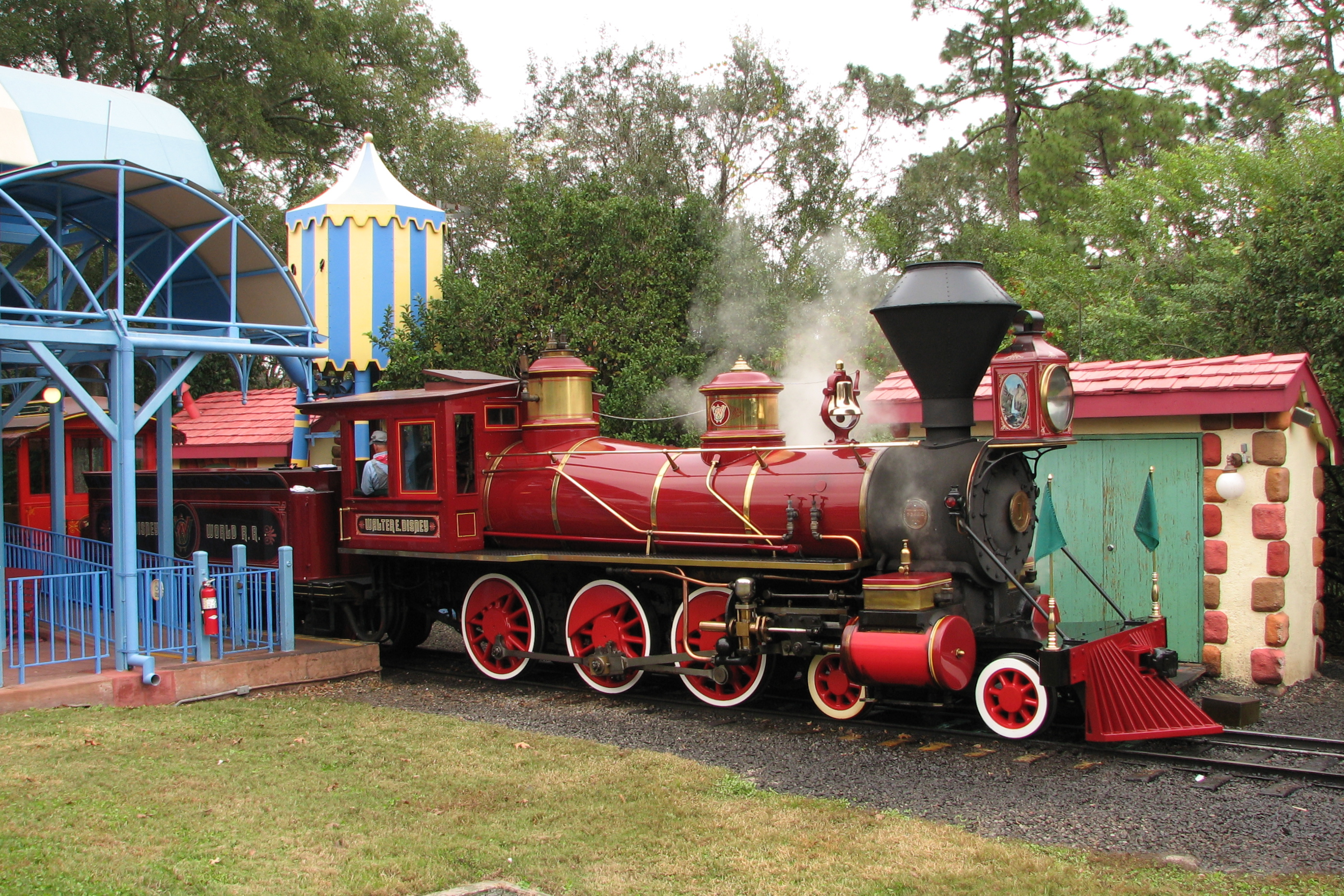 The Walter E. Disney waiting at Mickey's Toontown Fair station. As part of the Walt Disney World Railroad, this train is used to transport guests on a grand-circle tour of the Magic Kingdom.